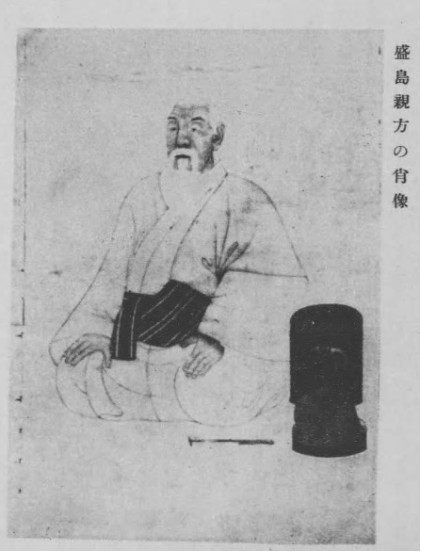 Morishima Ueekata Chōkon, later Ginowan Ueekata Chōkon.